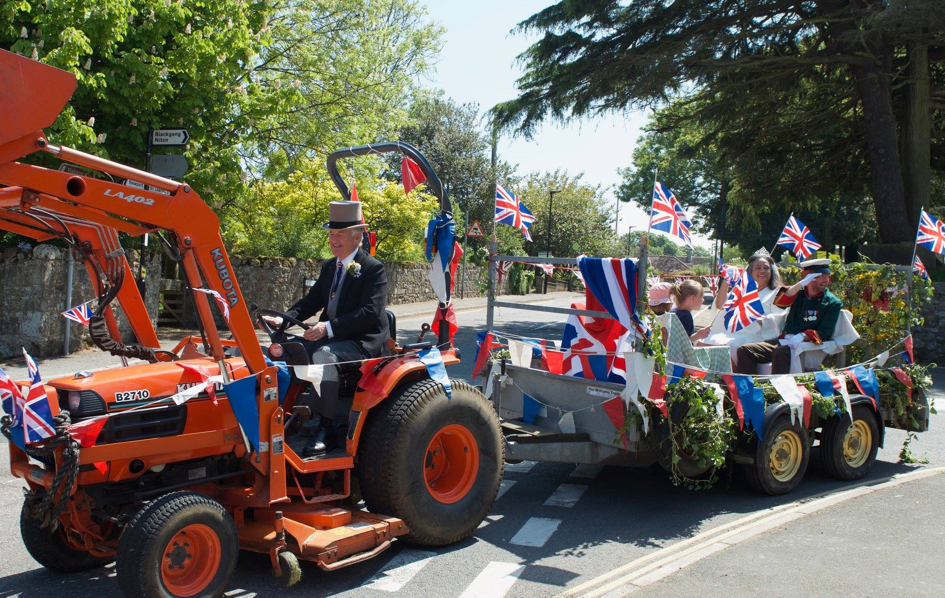 On 19th May 2018, Whitwell celebrated the royal wedding of HRH Prince Harry and Meghan Markle. A highlight of the day was a 'carriage ride' around the village.